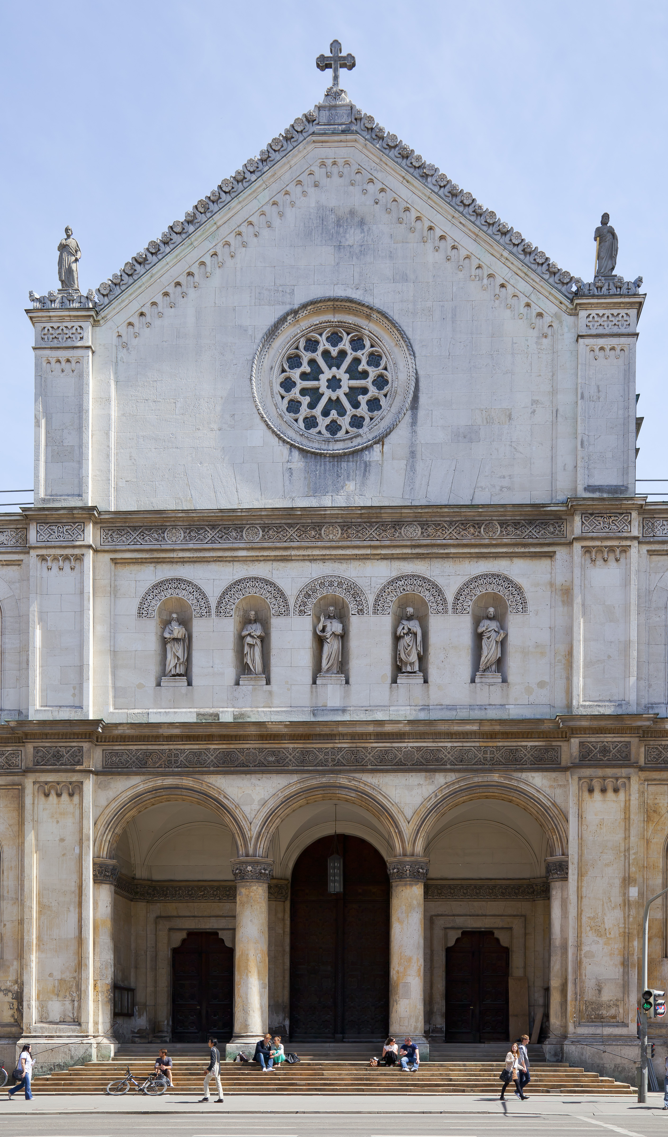 Church of St. Ludwig, Munich, Germany